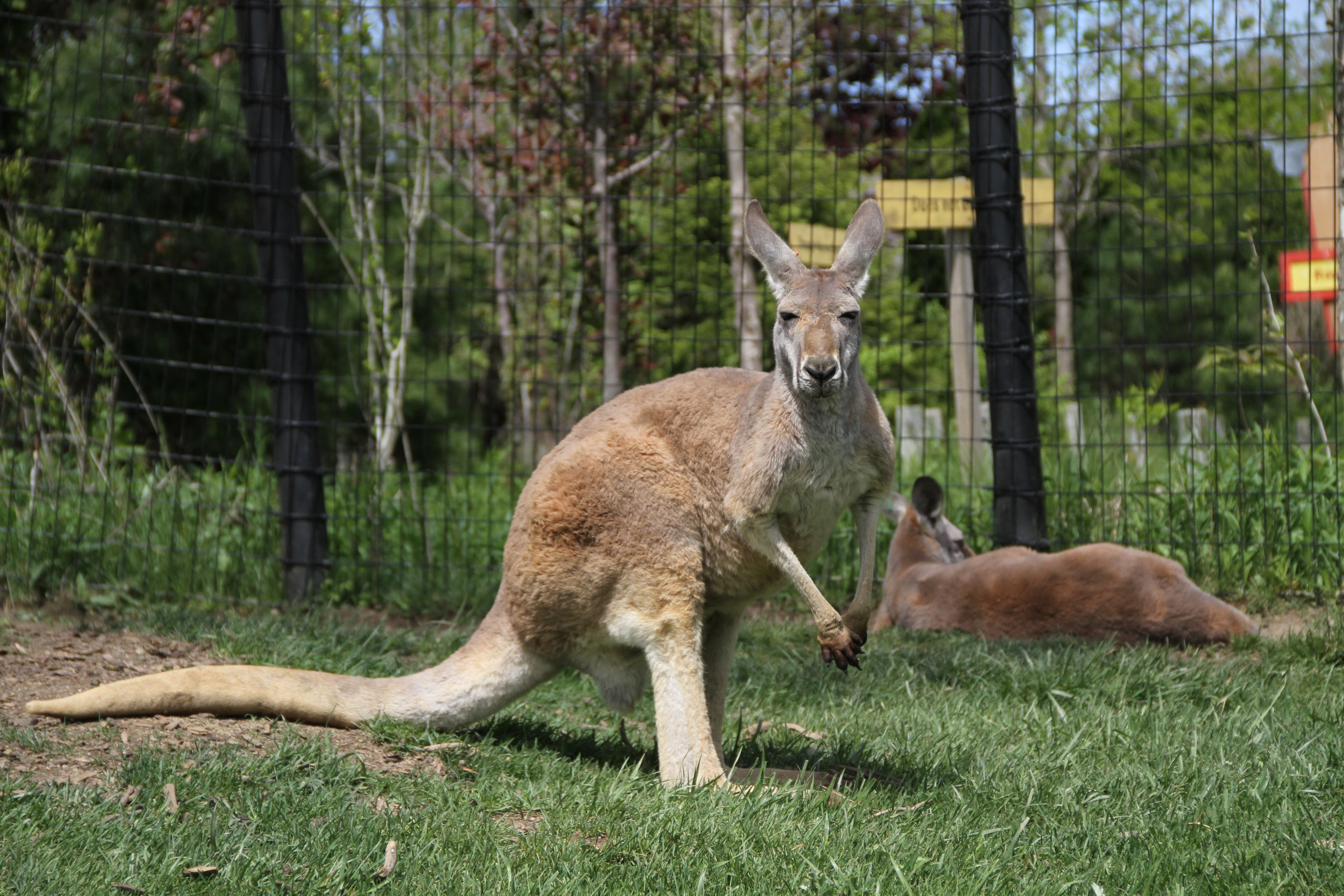 Kangaroo at Columbus Zoo and Aquarium